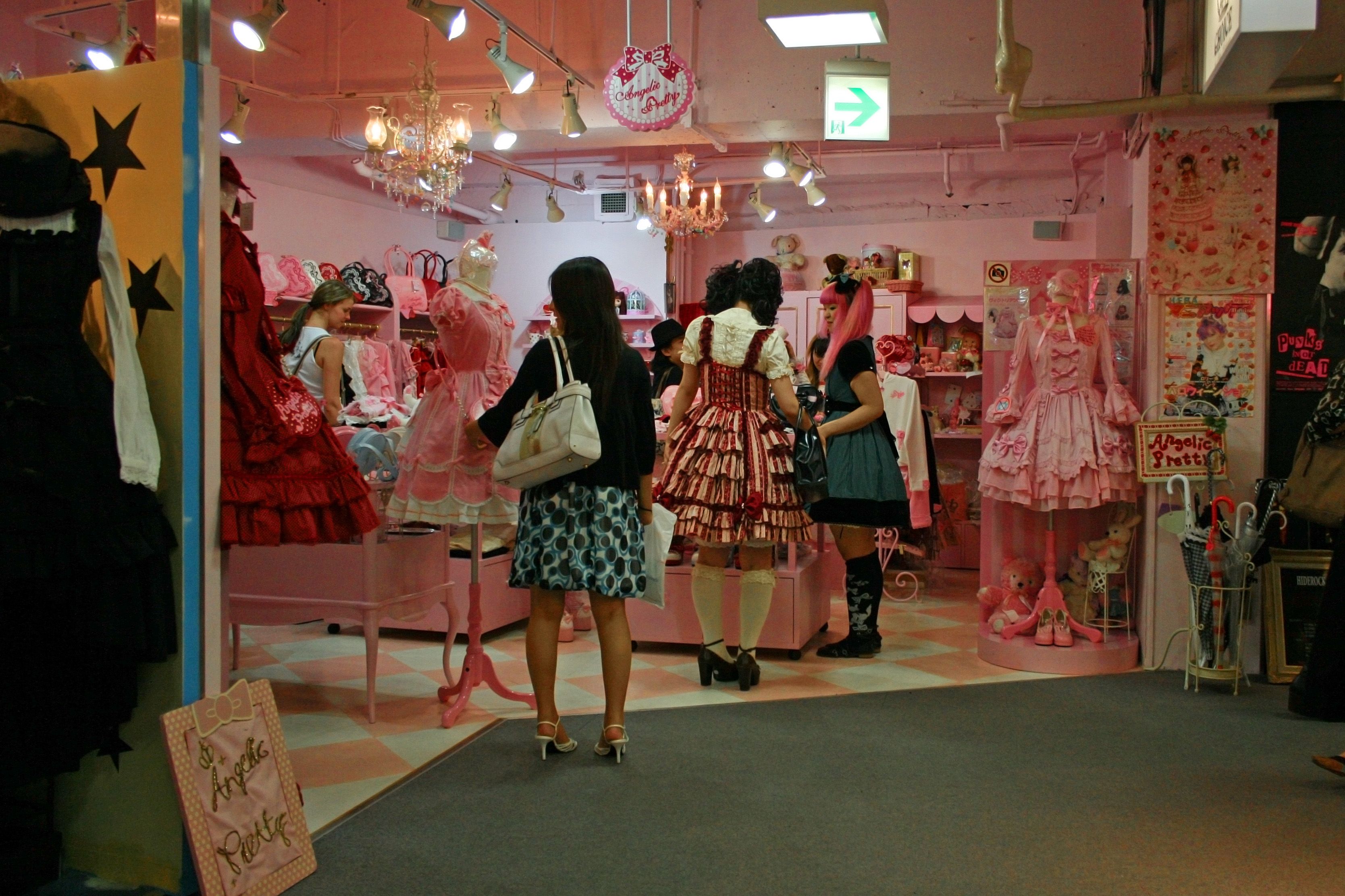 Gothic Lolita Store in Harajuku, Tokyo. See where this picture was taken. [?]